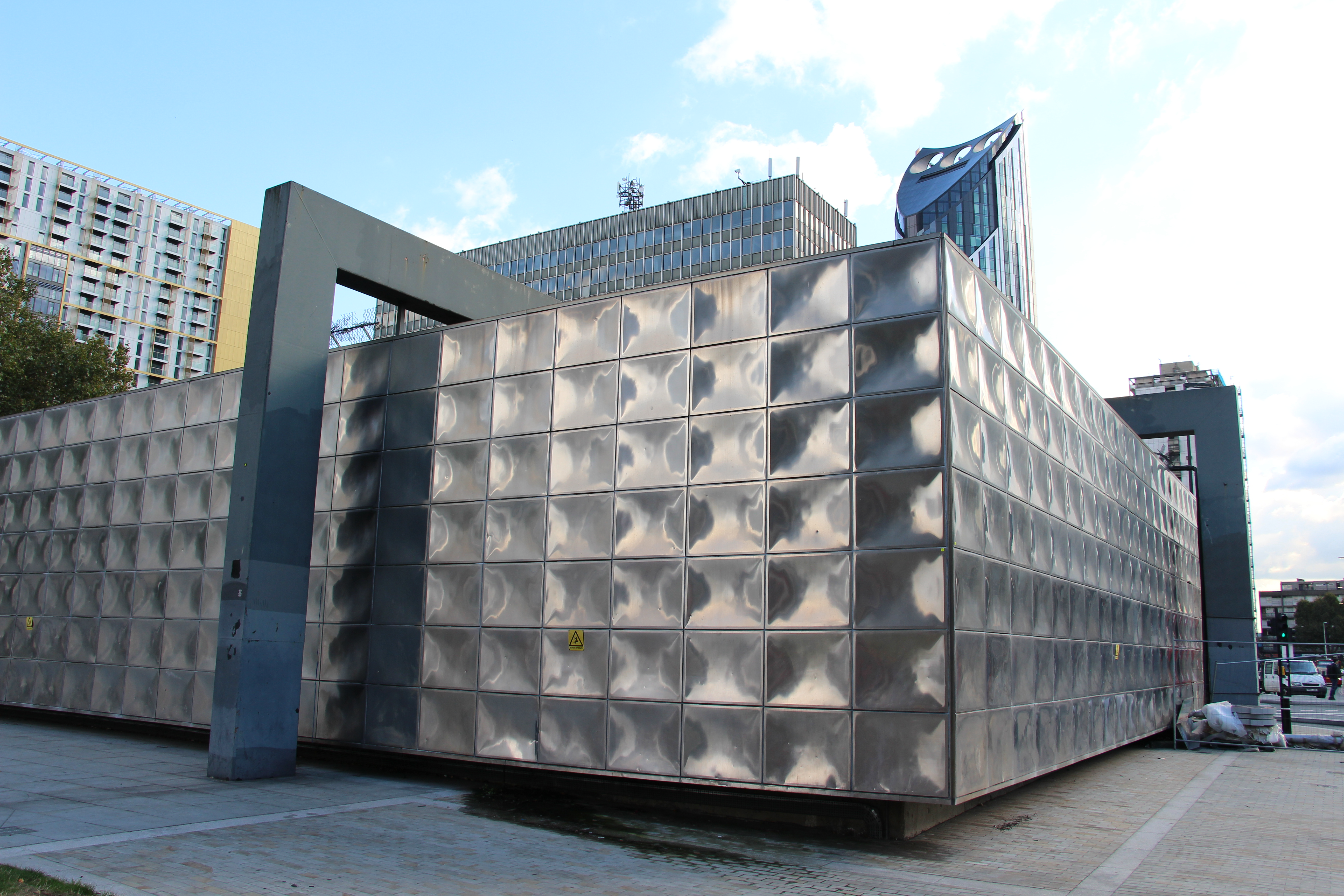 Elephant & Castle The stainless steel box-shaped structure is a monument to the Victorian scientist Michael Faraday. Arch. Rodney Gordon 1959-61.